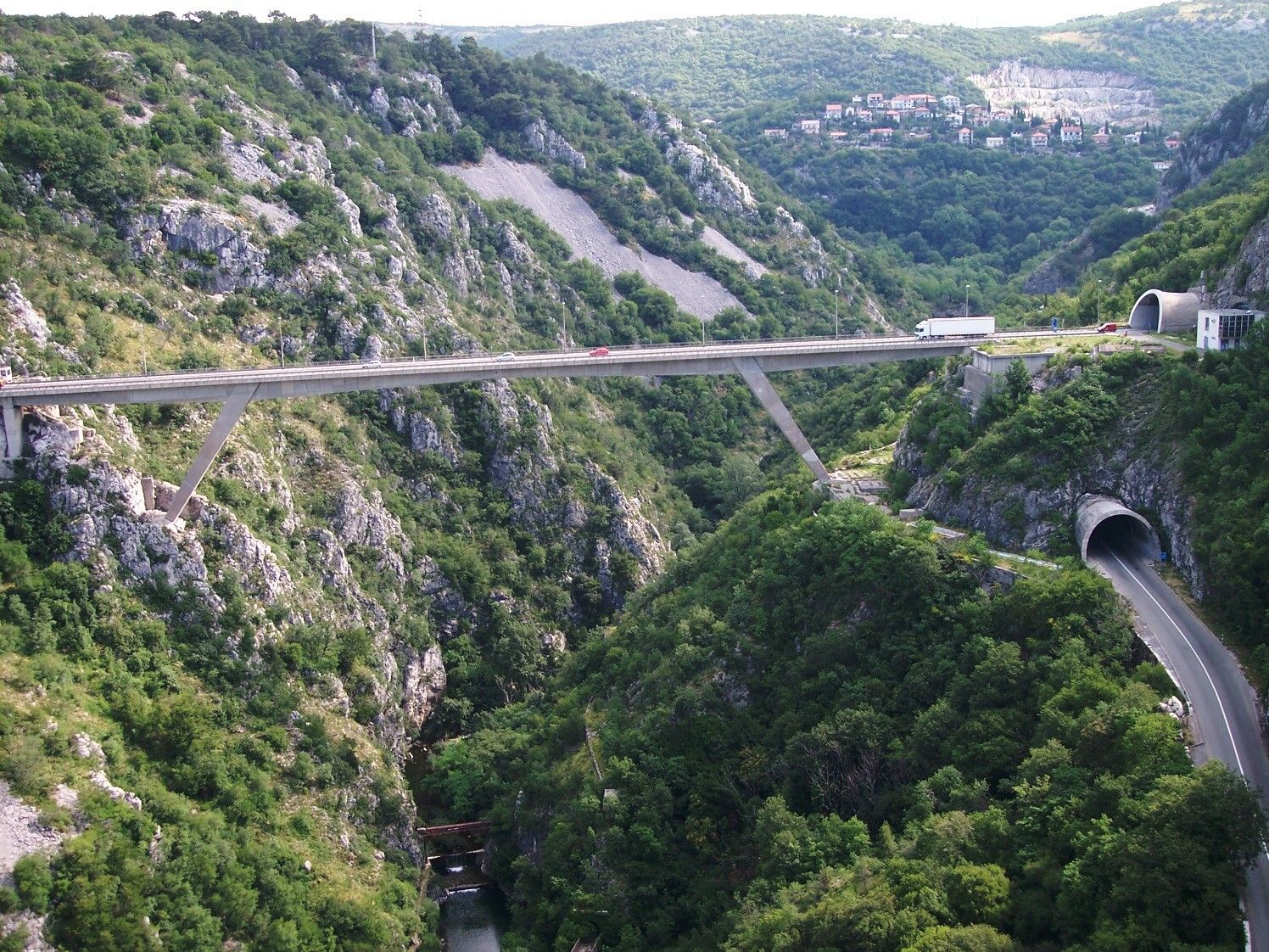 Rijeka (Croatia) Italian and Hungarian name: Fiume